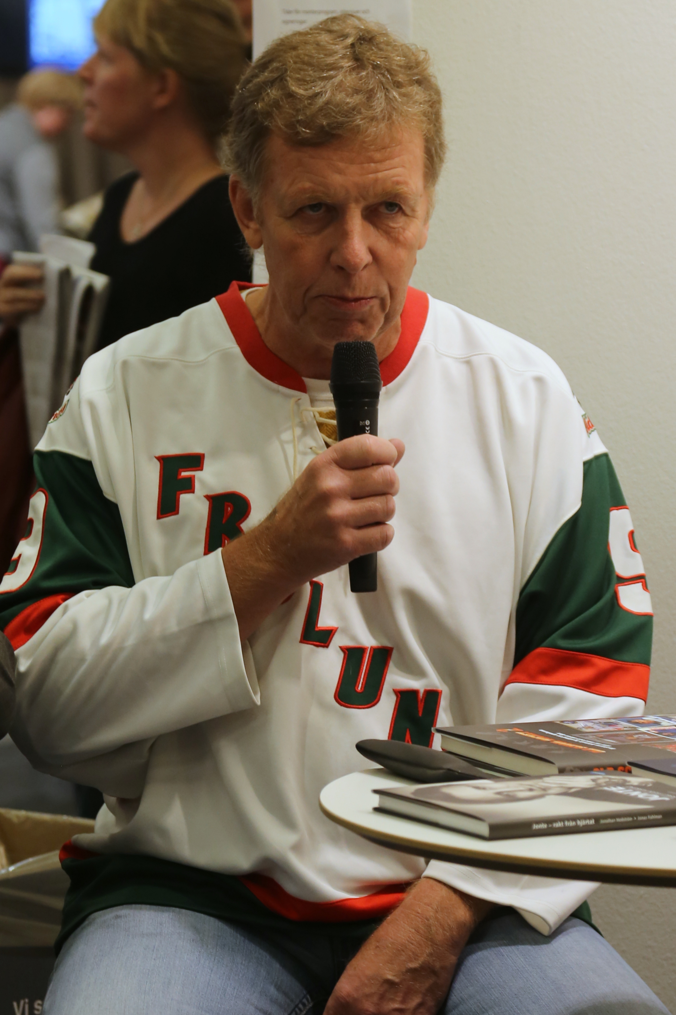 Anders Broström at the Gothenburg Book Fair 2014.